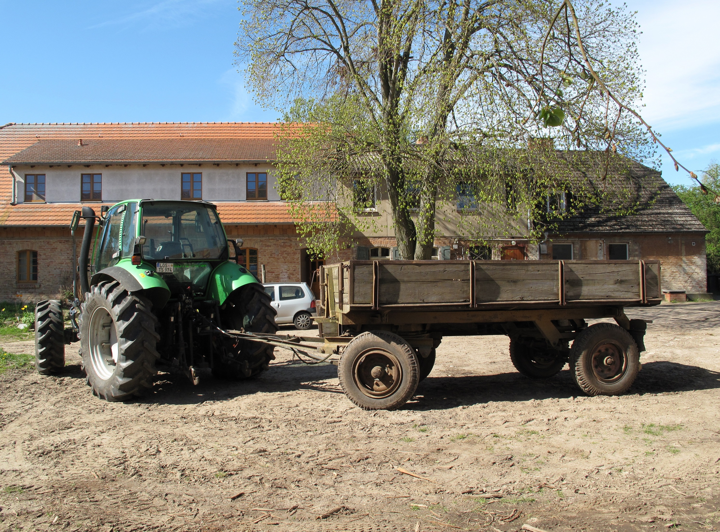 Farmbuilding of the „Hof Marienhöhe“ in April 2014. Marienhöhe is a part (settlement, estate; german: Wohnplatz) and organic farm of Bad Saarow, District Oder-Spree, Brandenburg, Germany. The place was established in 1880 as folwark of the manor Saarow. Since 1928 the „Hof Marienhöhe“ works on the biodynamic agriculture-method (Demeter international) and is considered to be the oldest farm working with this method in Germany.